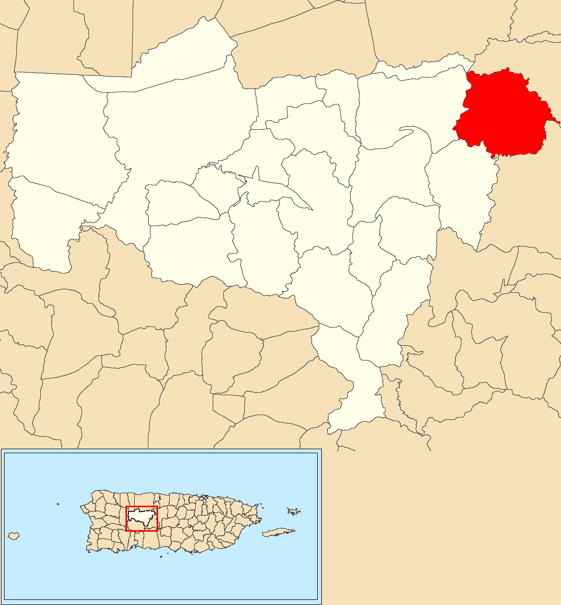 Mameyes Abajo, Utuado, Puerto Rico locator map